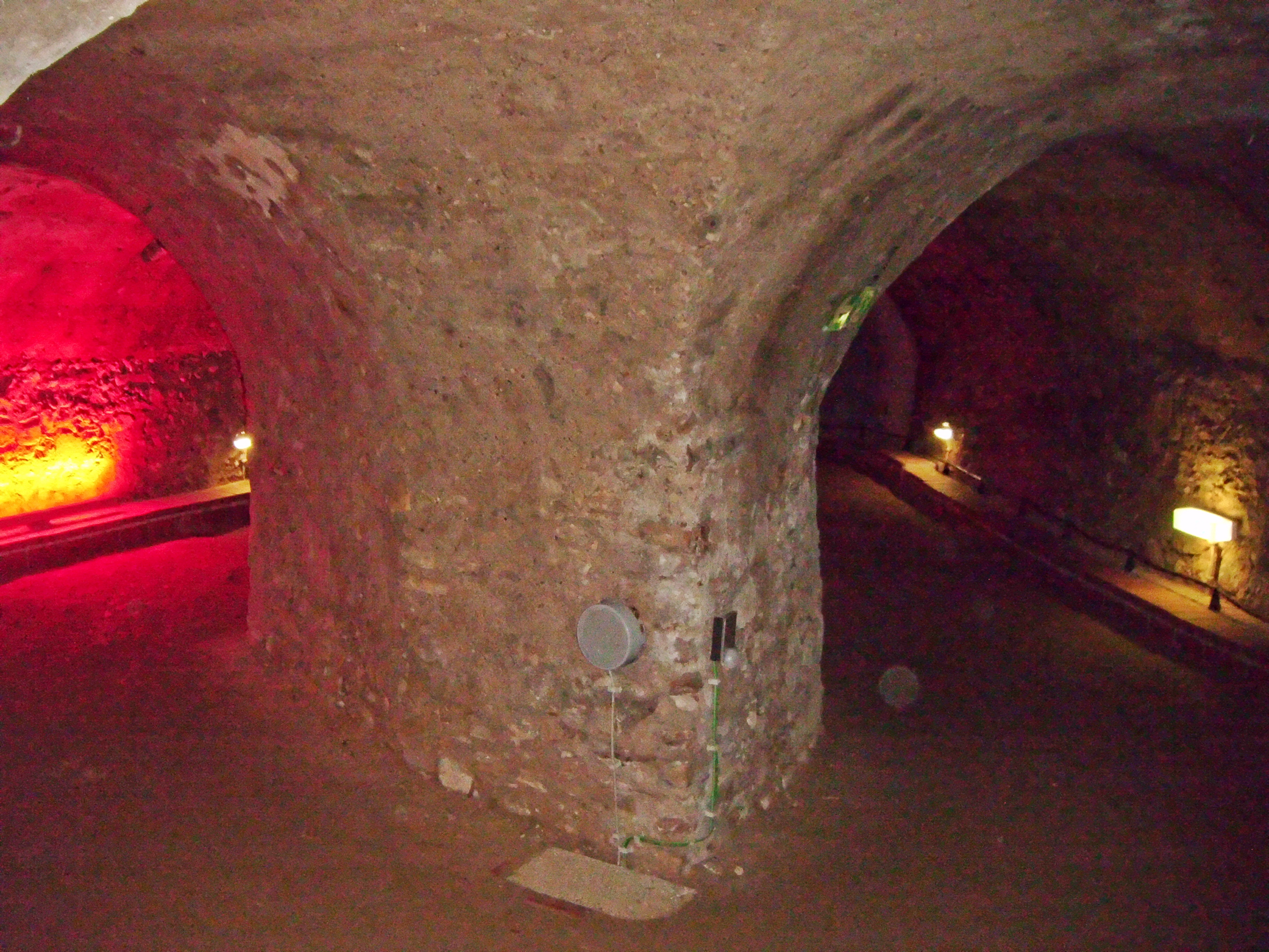 Oppenheimer Kellerlabyrinth